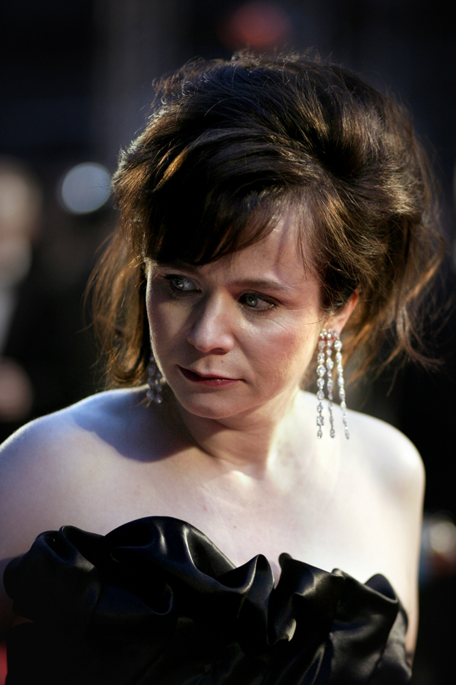 Emily Watson at the Orange British Academy Film Awards in London's Royal Opera House